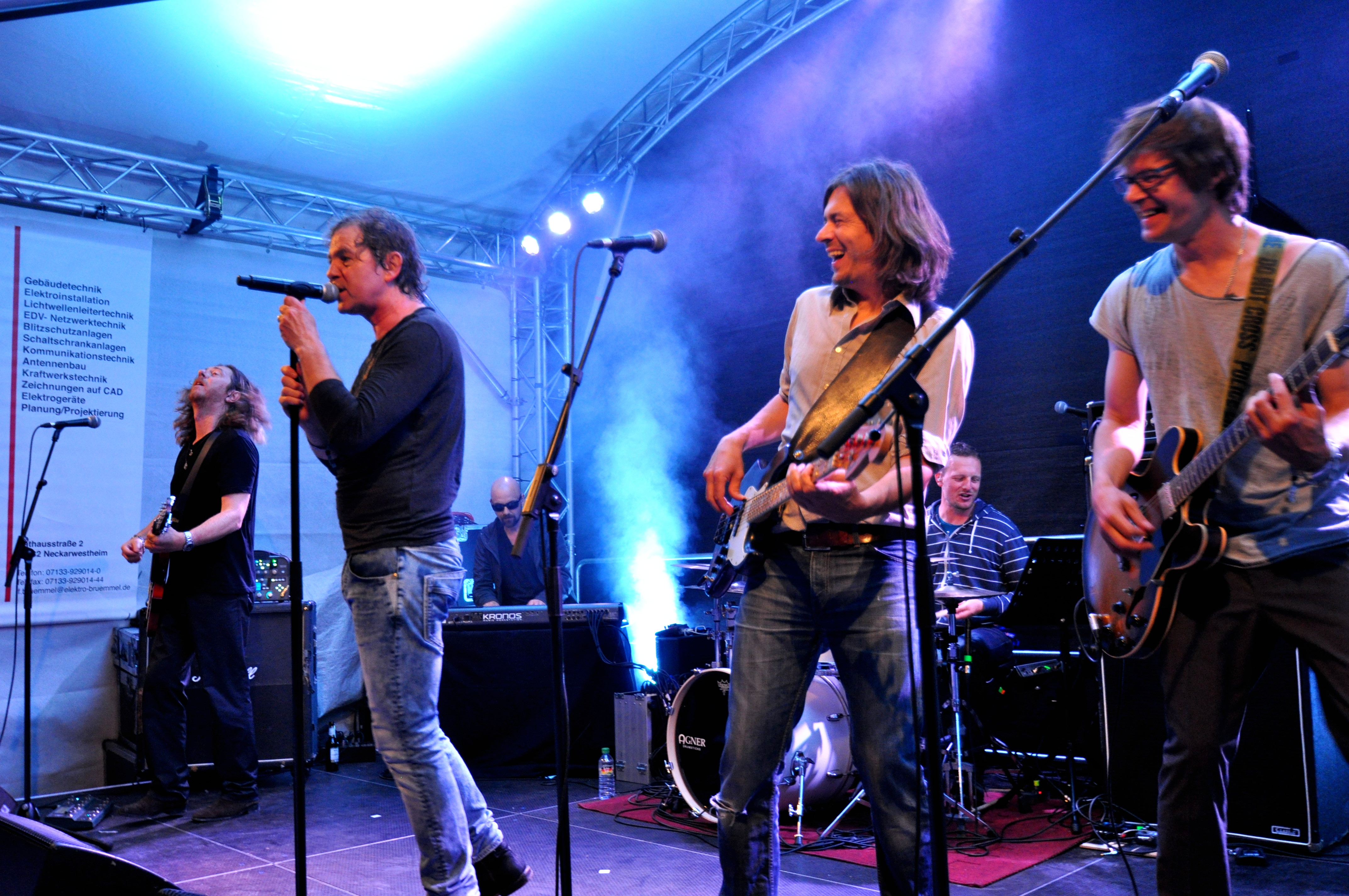 Fools Garden (DEU) appearance at the 2016 blacksheep festival at Bonfeld castle, Bad Rappenau, Baden-Wuerttemberg, Germany Festivalsommer This photo was created with the support of donations to Wikimedia Deutschland in the context of the CPB project "Festival Summer".